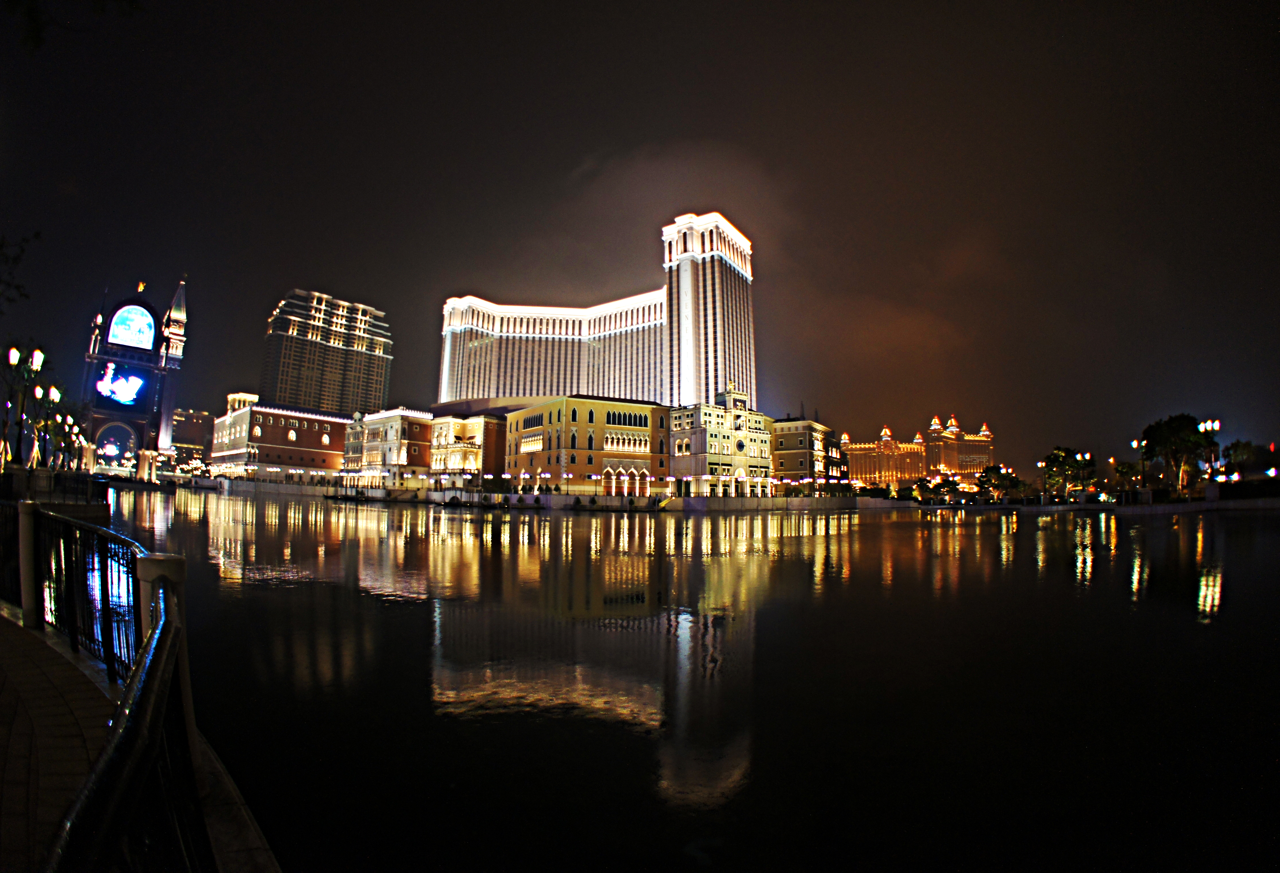 The Venetian Macao Night View